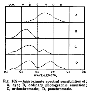 Plot of spectral sensitivities (sensibilities) of eye versus films